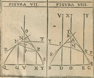 Geometrical figures from Bonaventura Cavalieri's work Lo Speccio Ustorio, published 1632. They demonstrate that, for a light ray parallel to the axis of a parabola and reflected so as to pass through the focus, the sum of the incident angle and its reflection is equal to that of any other similar ray, and that if a line is extended from a point outside of a parabola to the focus, then the reflection of this line on the outside surface of the parabola is parallel to the axis.